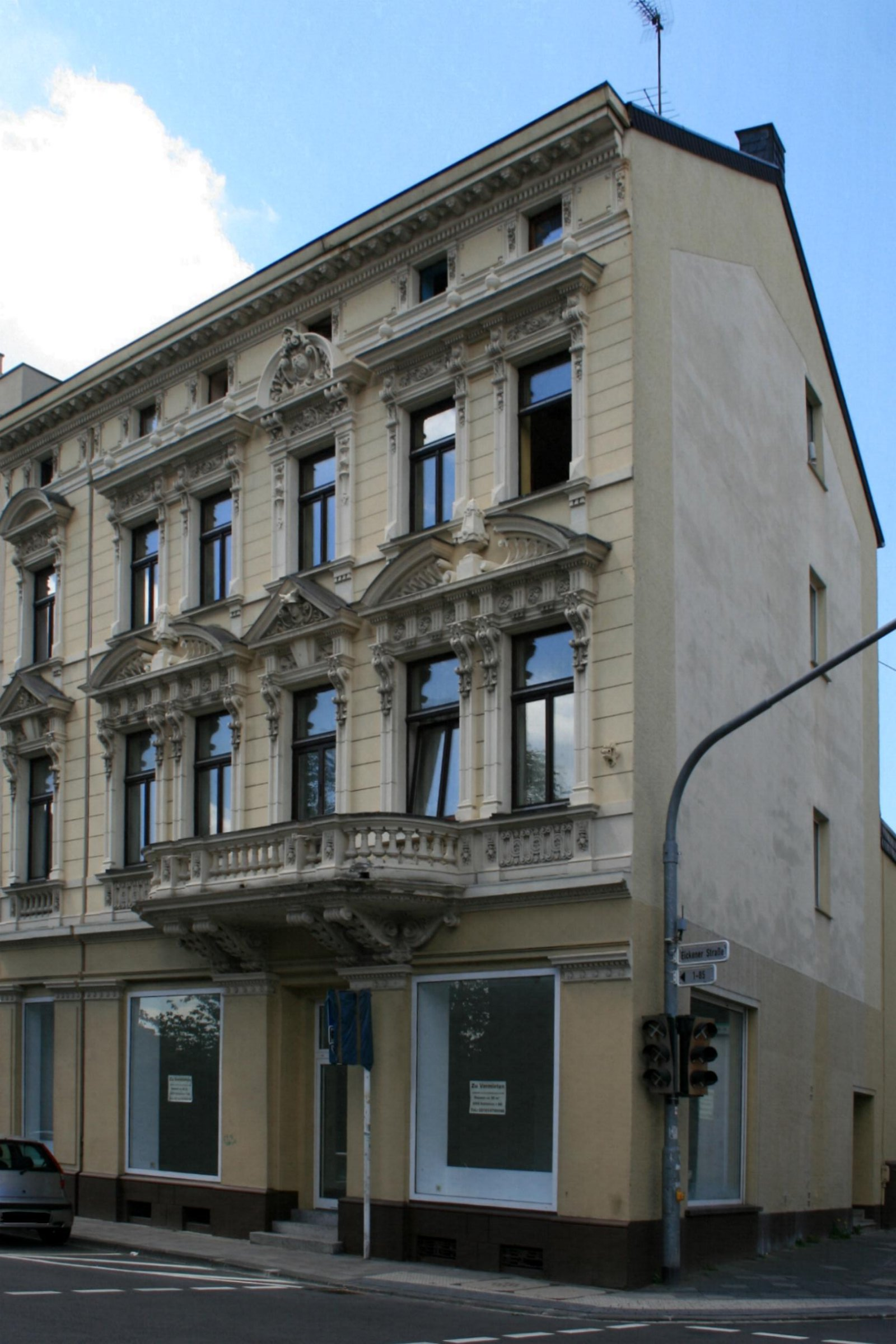 Cultural heritage monument No. E 004 in Mönchengladbach